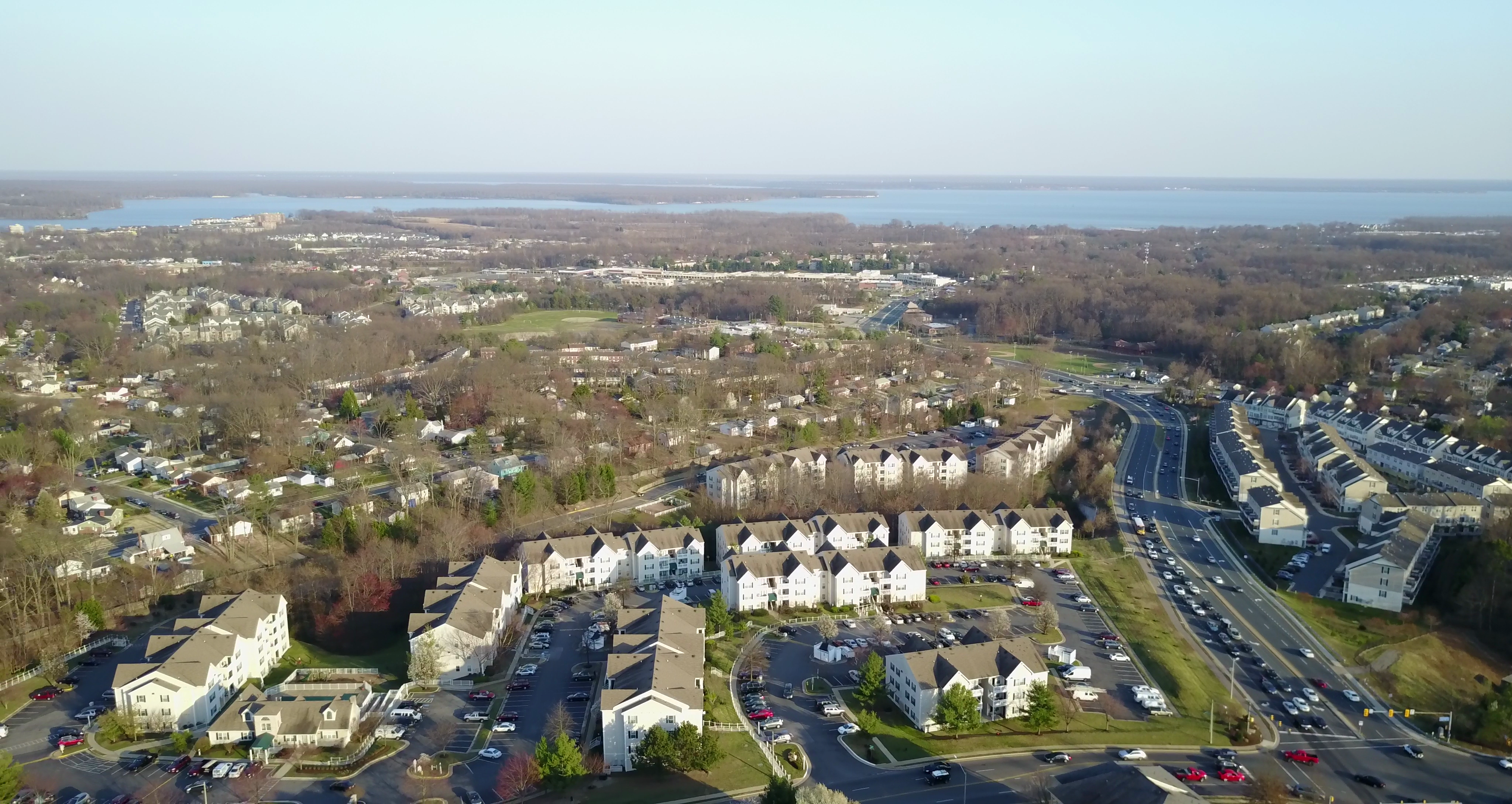 View of Marumsco, Virginia near Potomac Mills